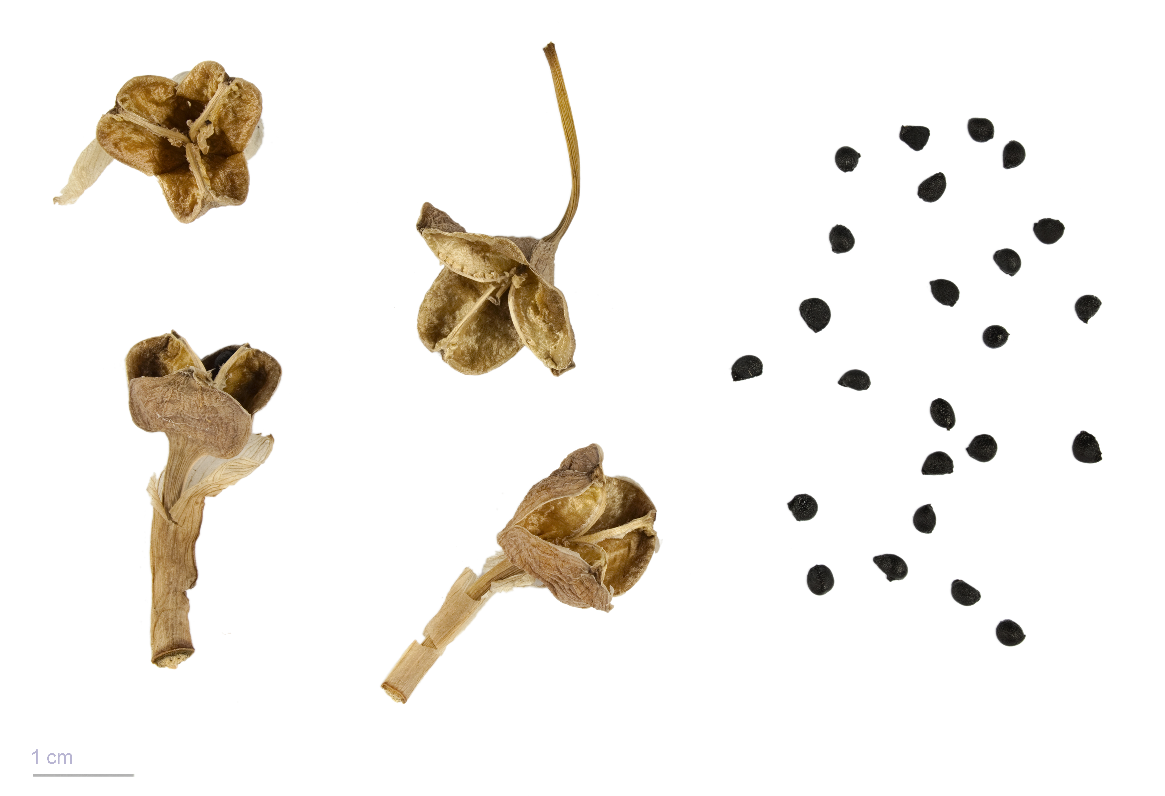 Wild daffodil , fruits and seeds